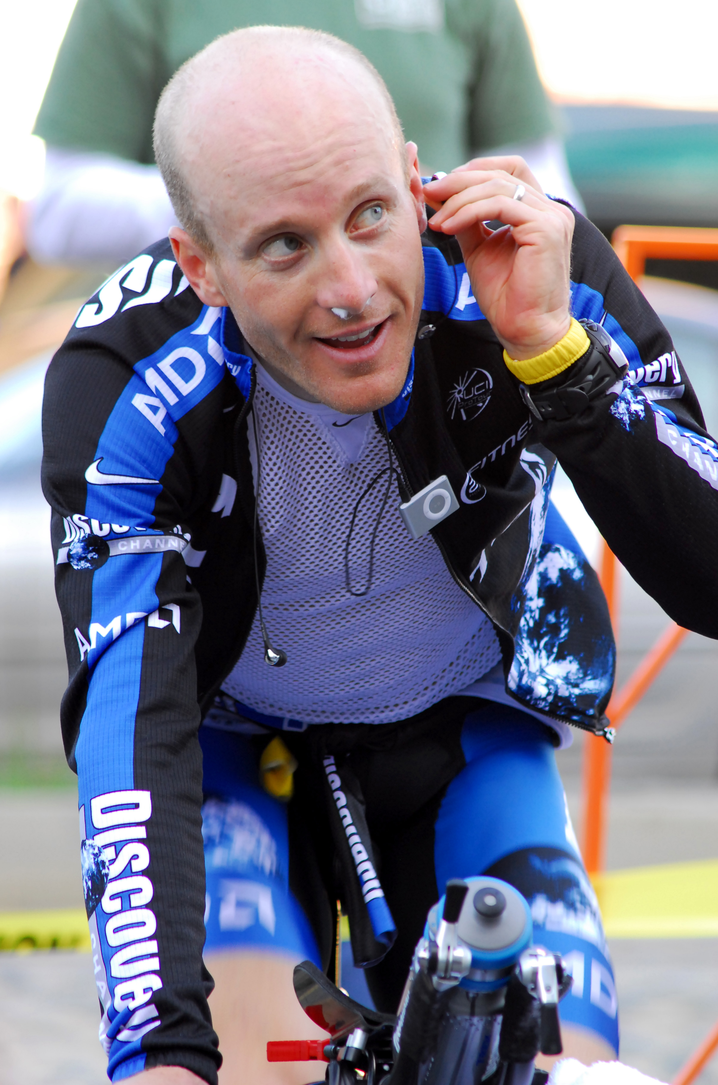 Levi Leipheimer plugs in while warming up for the prologue. The eventual winner indicated he was listening to Guns n' Roses as his pre-race motivational music.